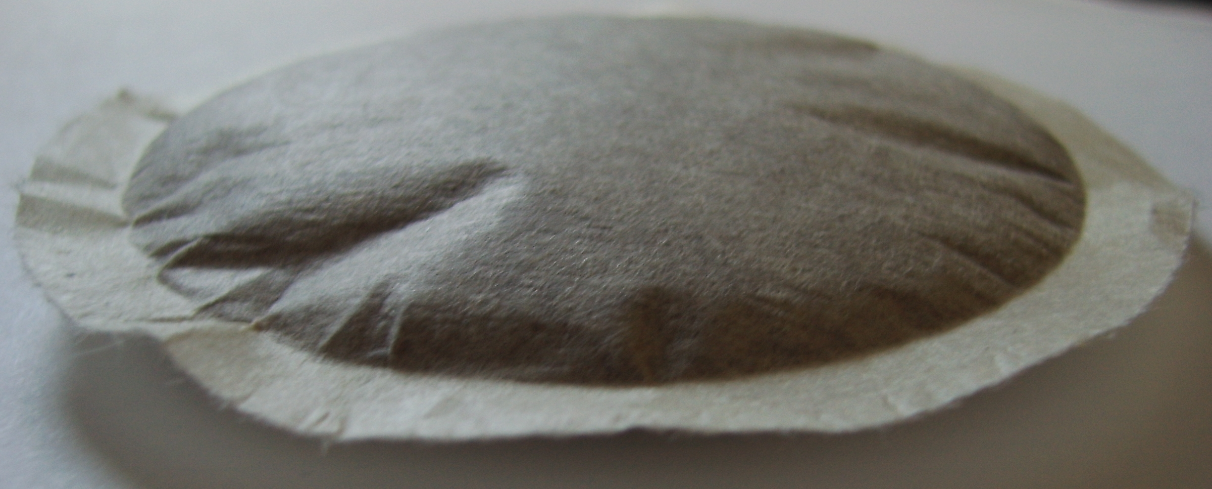 Kaffeepad, coffee pad